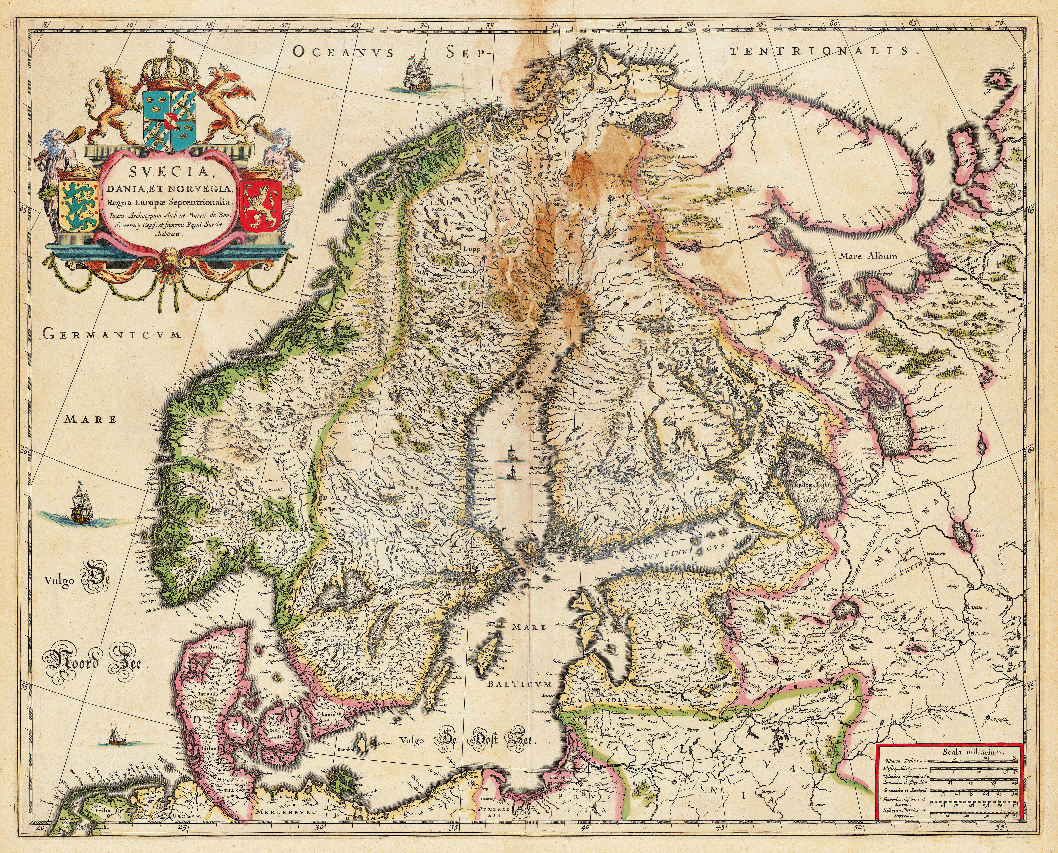 Svecia, Dania et Norvegia, Regna Europæ Septentrionalia Published in Amsterdam. Copper engraving, 1:4 400 000, 42 x 53 cm.